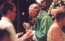 Bishop John Aloysius Morgan at the Centenary Mass for St Josephs College